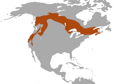 Fisher (Martes pennanti) range